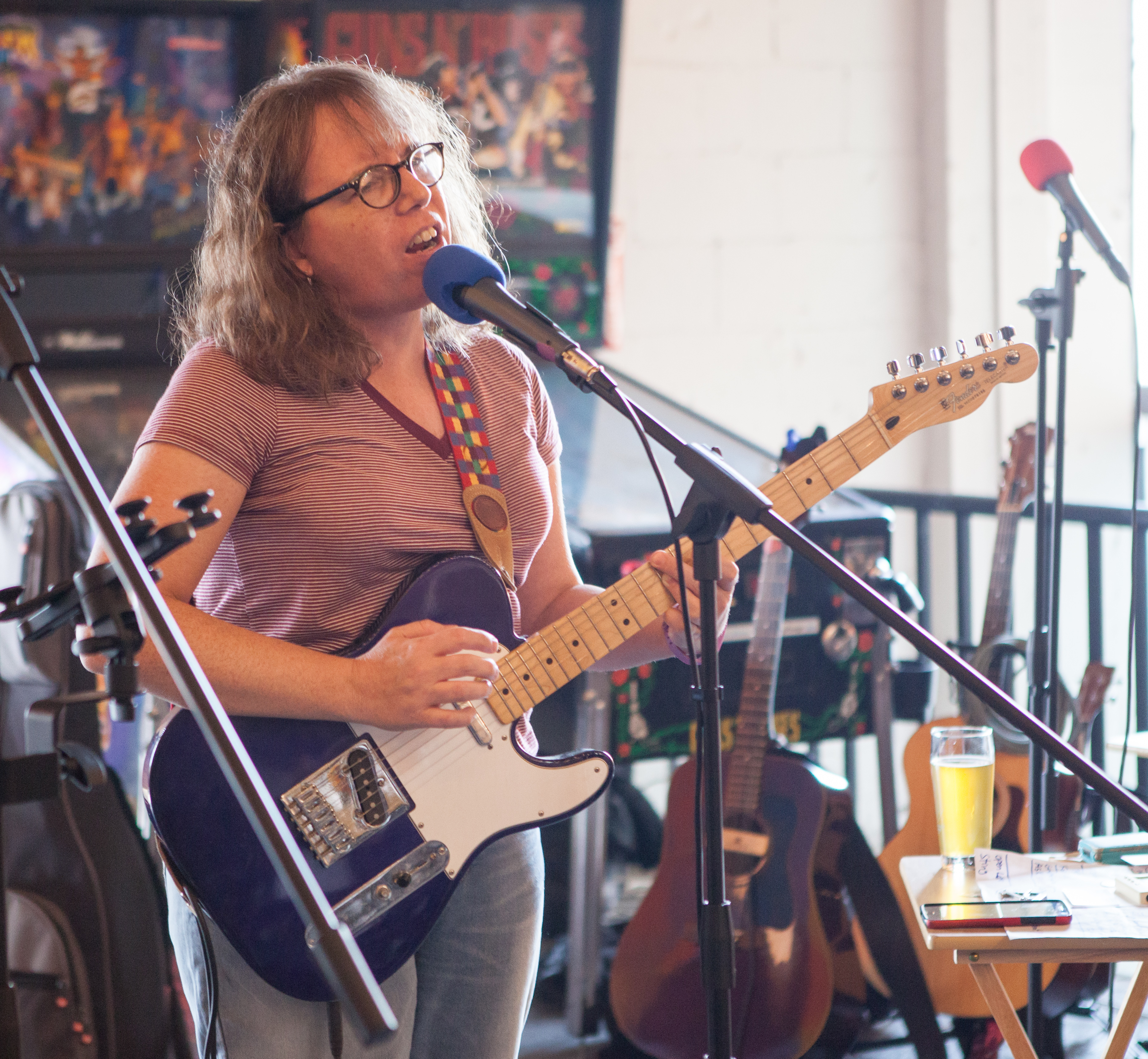 Julia Serano sings and plays guitar for her *soft vowel sounds* set at a trans pride benefit concert in San Francisco.